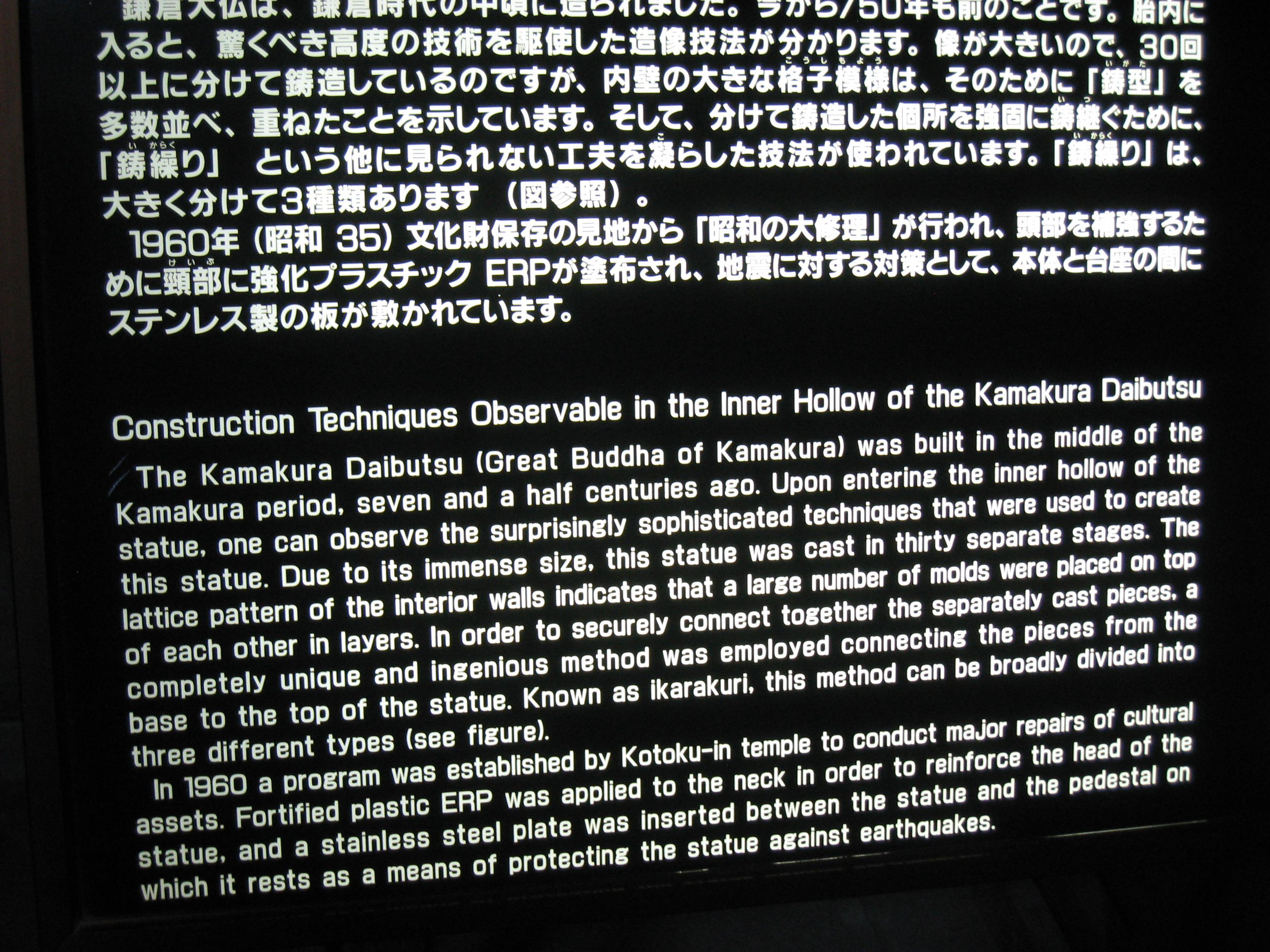 Explanation plate of Kamakura Daibutsu builting technique